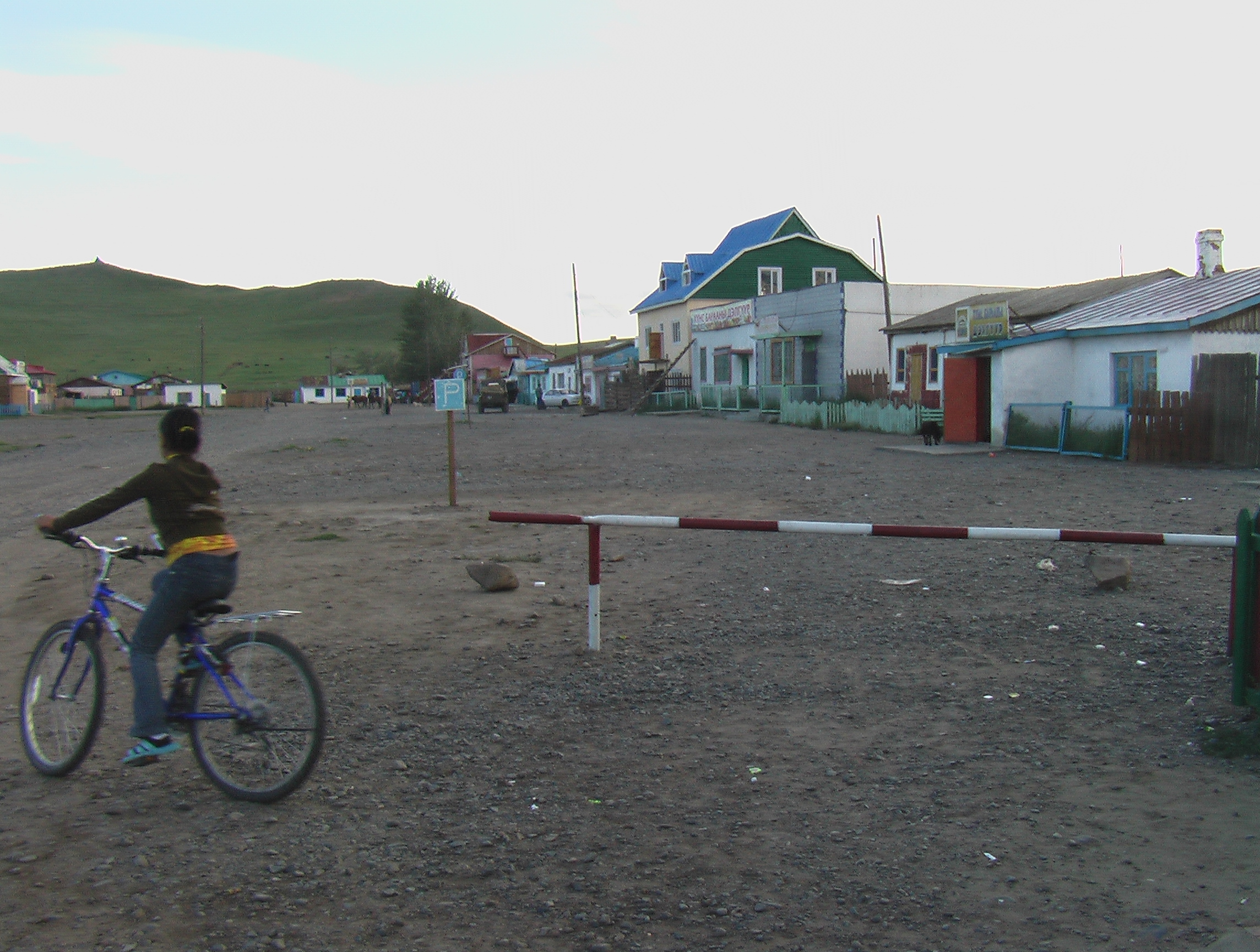 Tsakhir sum, Arkhangai aimag, 2006